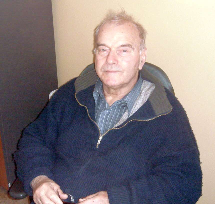 Alexander Kaplyanskii